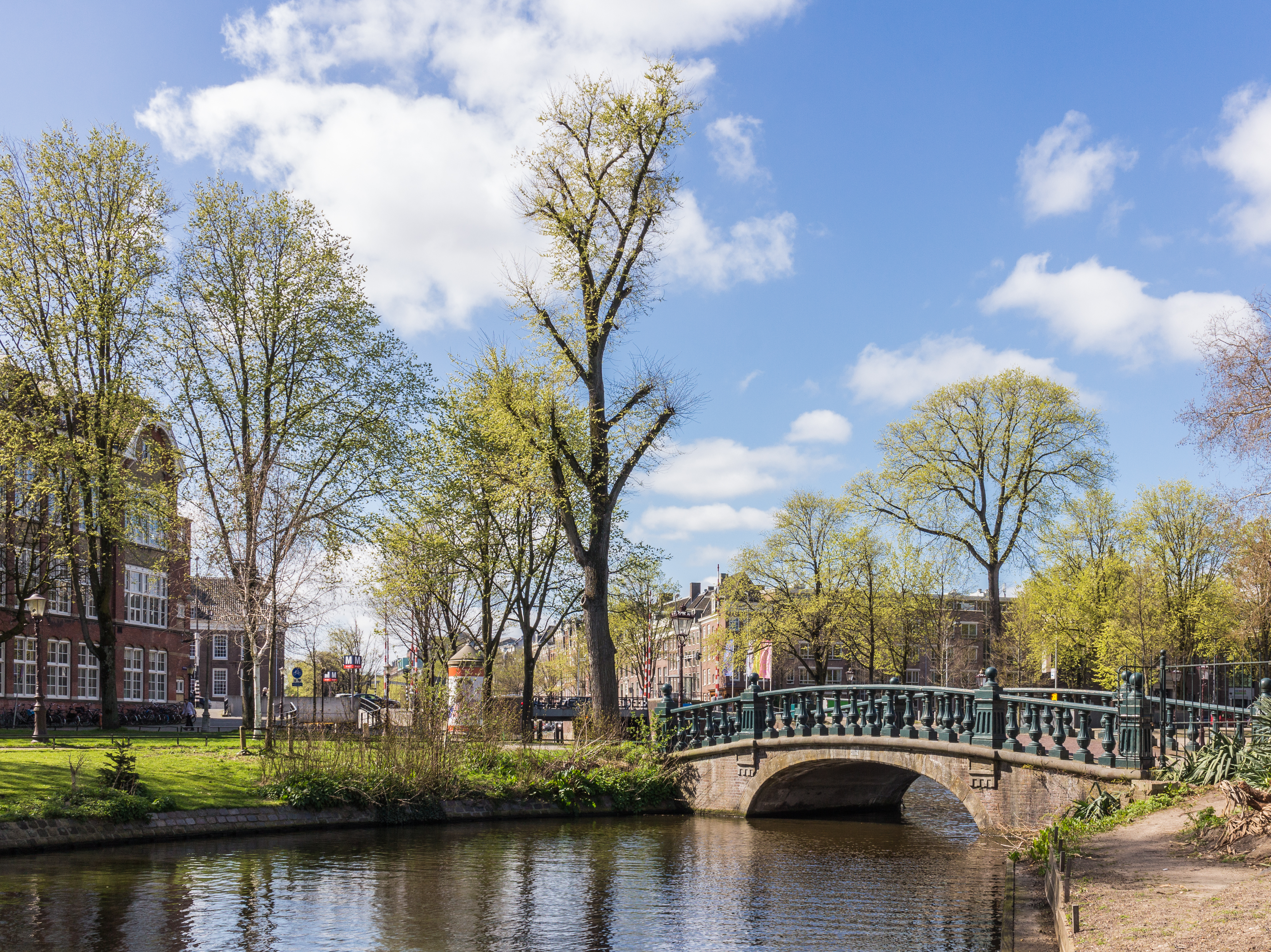 Hortus Botanicus Amsterdam. Bridge 233, Dr. D.M. Sluyspad over the Nieuwe Herengracht.